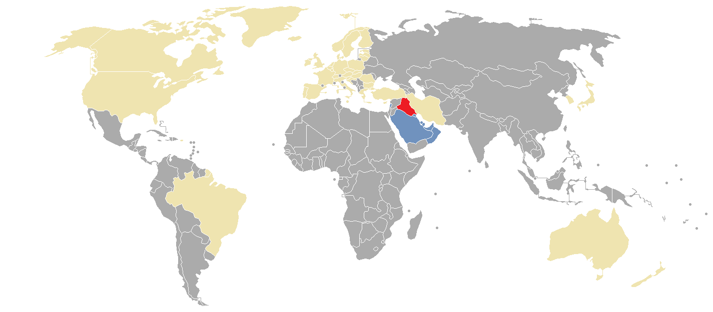 Visa policy of Iraq Iraq Visa-free access at Baghdad (unlimited), Erbil and Sulaimaniyah (max. 15 days) airports Visa on arrival at Basra or Najaf airports Visa-free access at Erbil or Sulaimaniyah airports (up to 30 days) Visa required